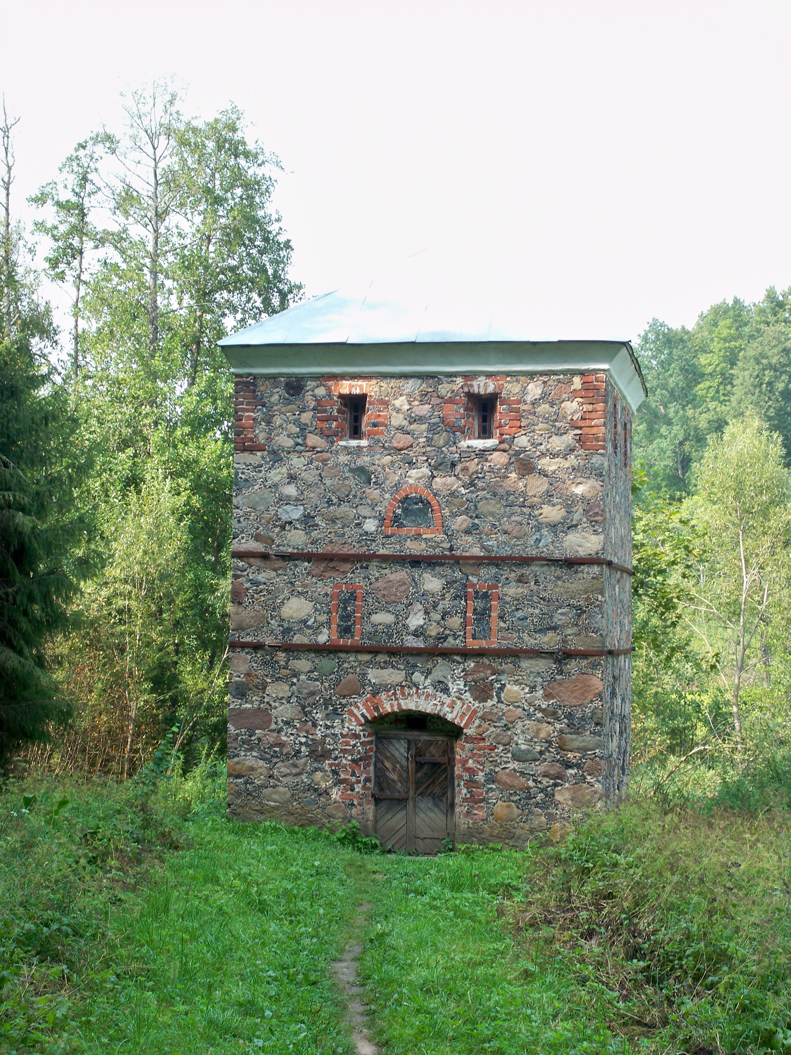 Stelmužė slave-tower.